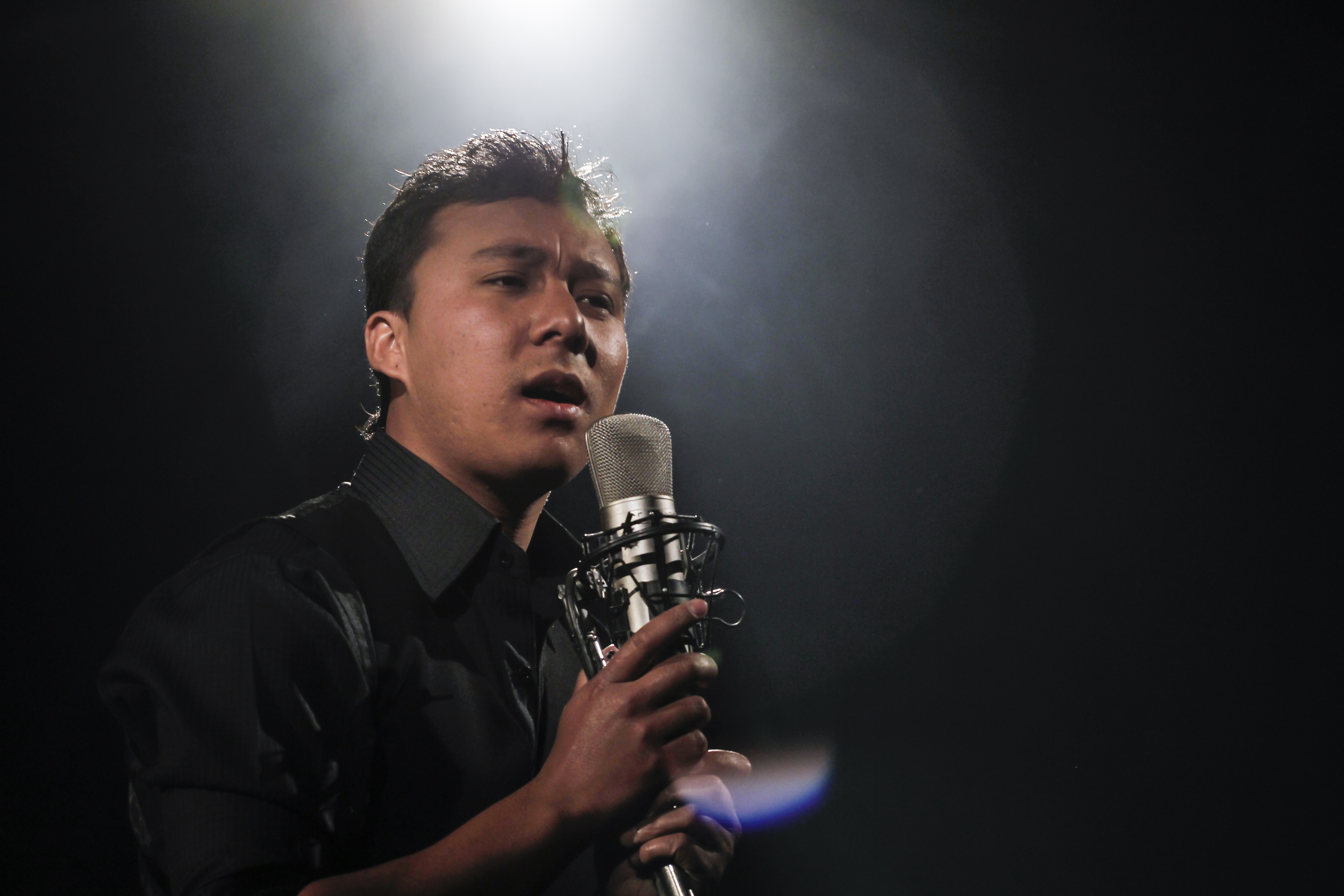 Santosh Lama (Template:Lang-ne): (born July 21, 1986 ) is a nepali singer.